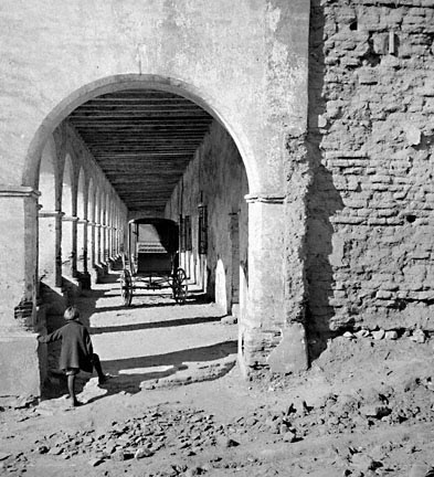 San Fernando Rey de Espana circa 1900.